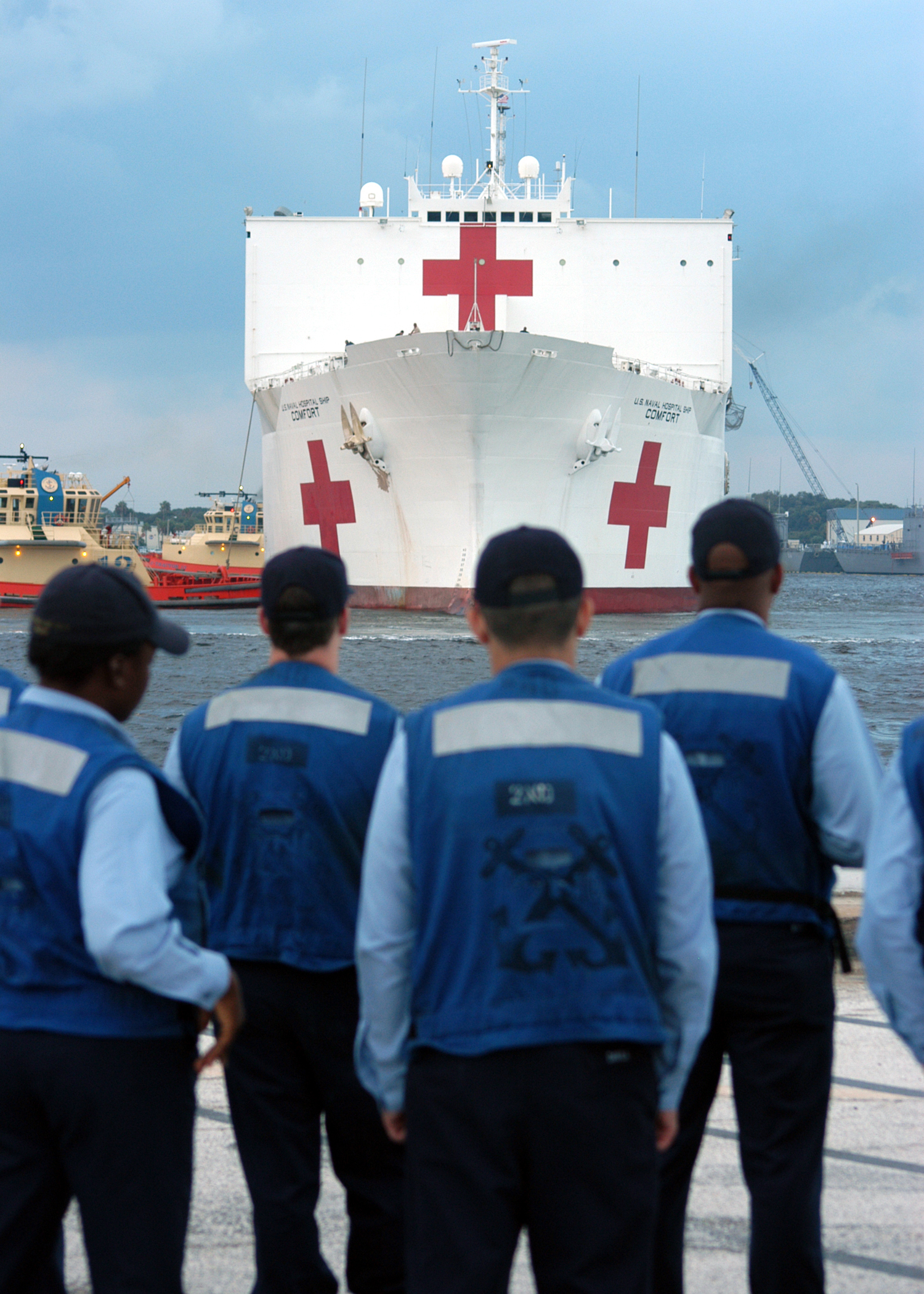 U.S. Navy sailors await the arrival of the Military Sealift Command (MSC) hospital ship USNS Comfort (T-AH-20) way to aid victims of Hurricane Katrina as it prepares to make port in Naval Station Mayport, Florida, to take on supplies on their way to aid victims of Hurricane Katrina, September 5, 2005.